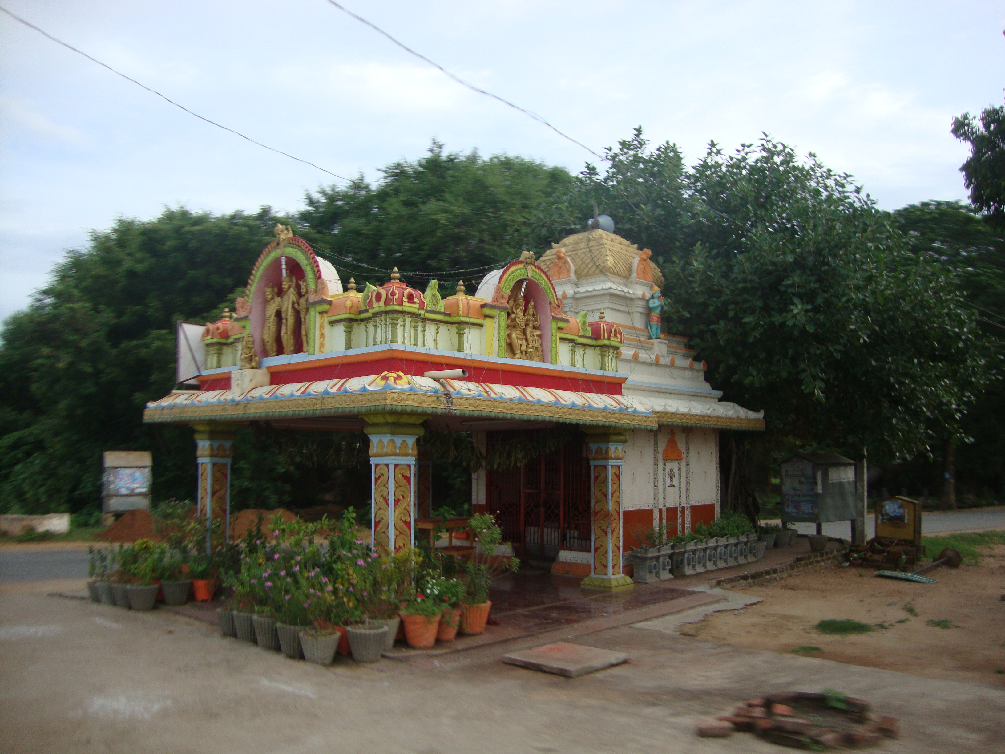 Kotta Chilkur Anjaneya Swamy Temple situated in the village entrance.